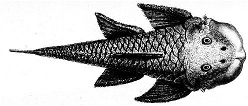 The woodcut shows the top view of a Chaetostoma loborhynchos, which J.J. von Tschudi described in the book "Untersuchungen über die Fauna peruana" (1846).